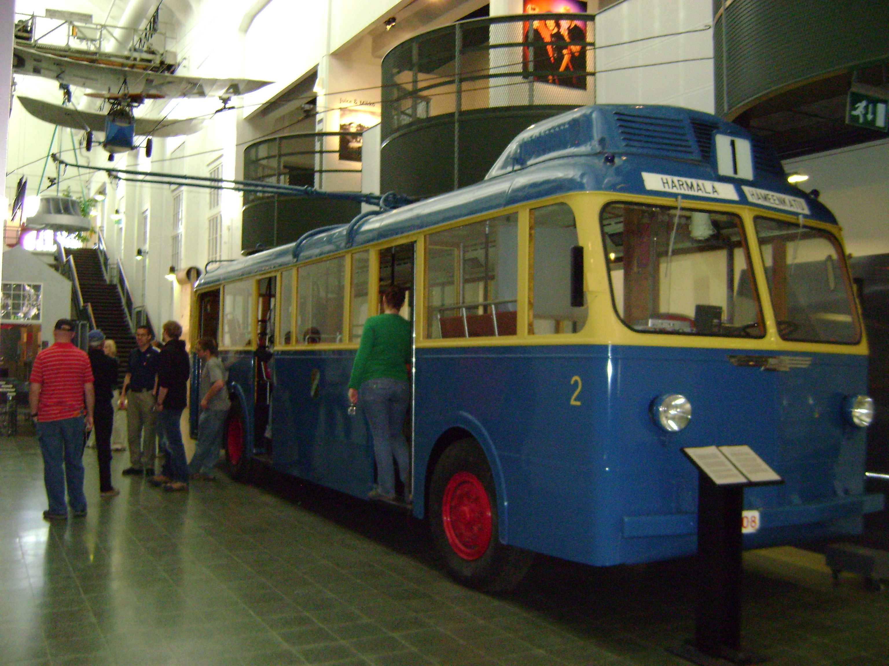 Valmet/BTH trolleybus no. 2 in Vapriikki museum in Tampere, Finland